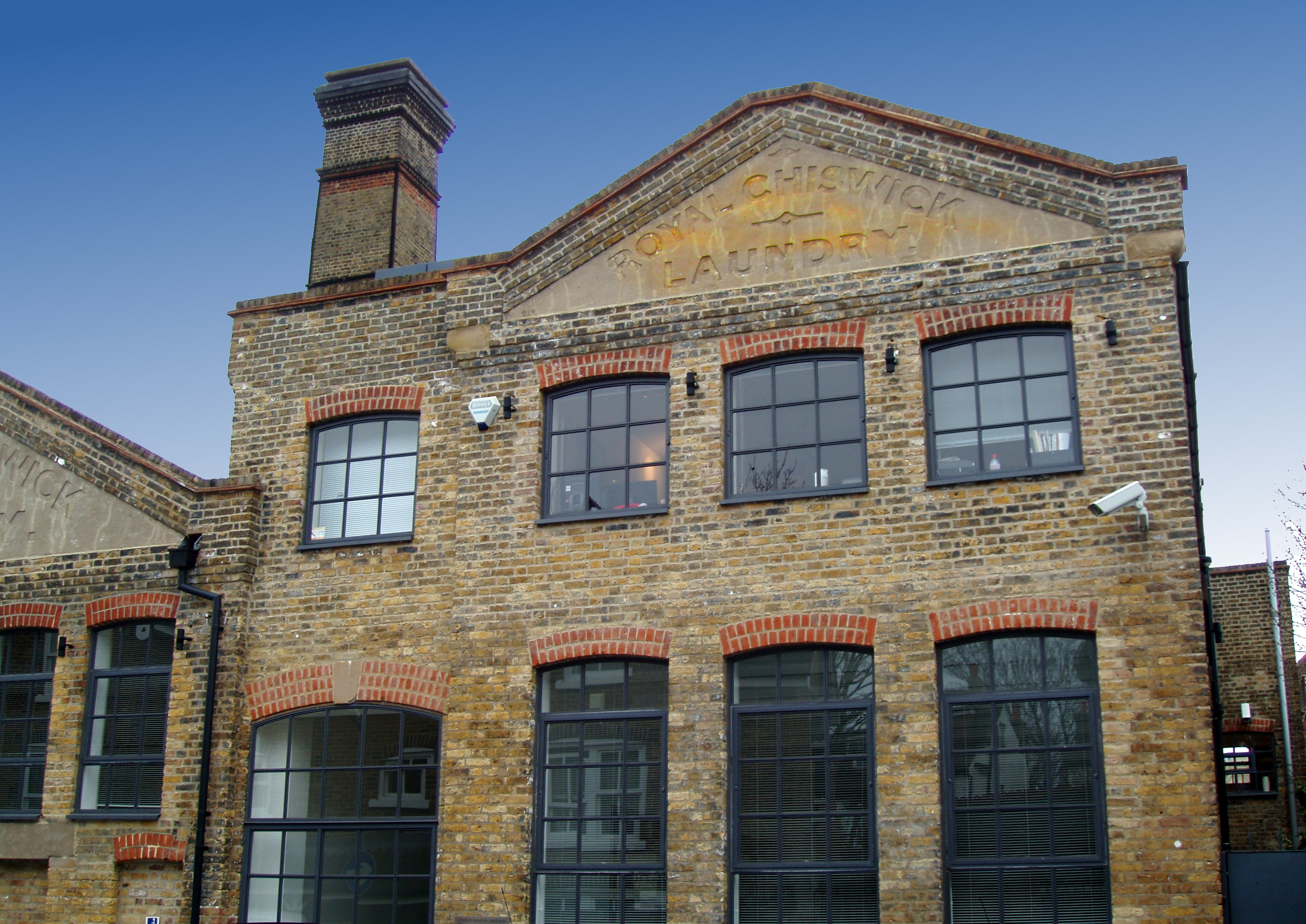 I took this on 19th March, its the former Chiswick Laundry at the rear of St Peter's Square, Hammersmith